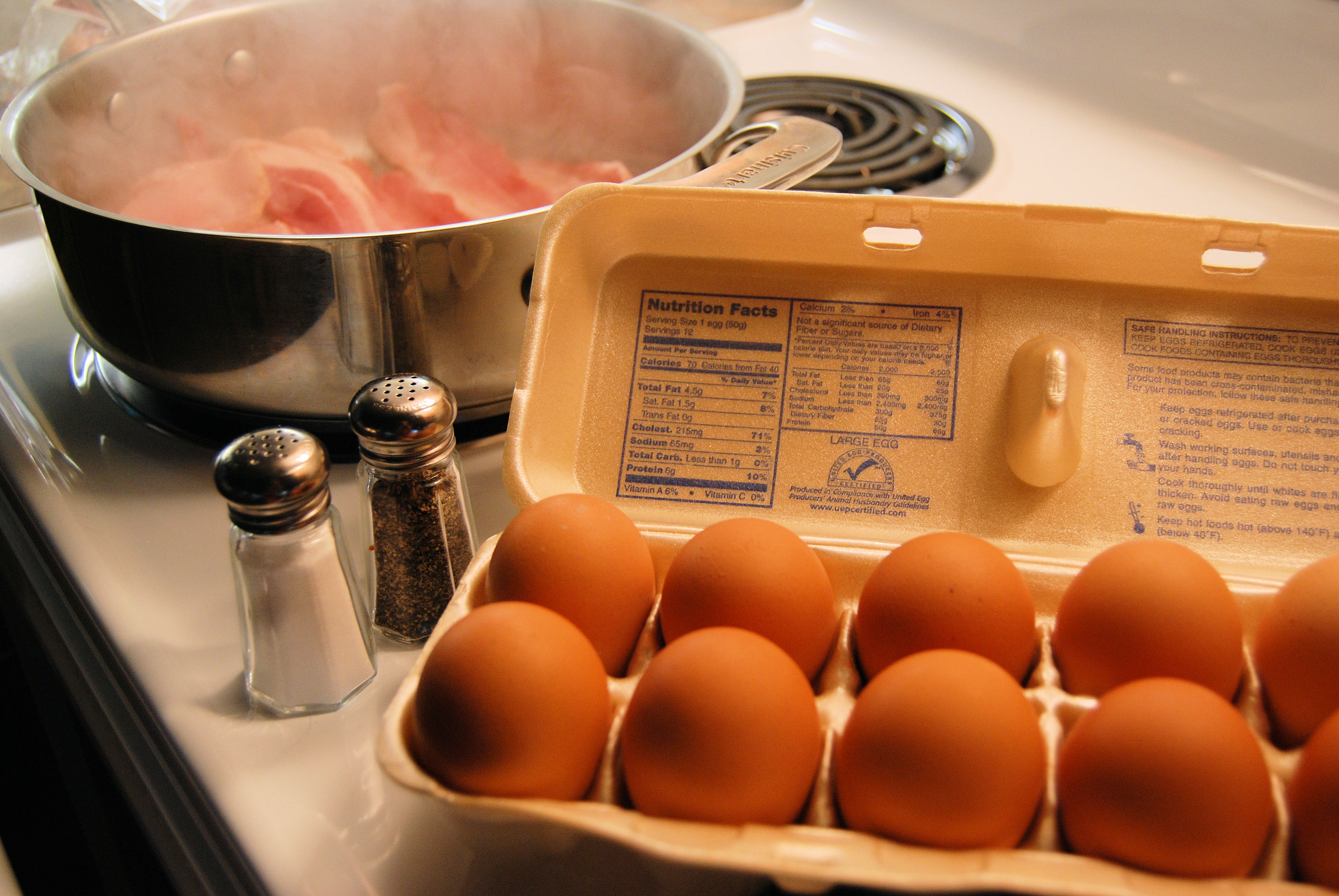 Uploaded by SA